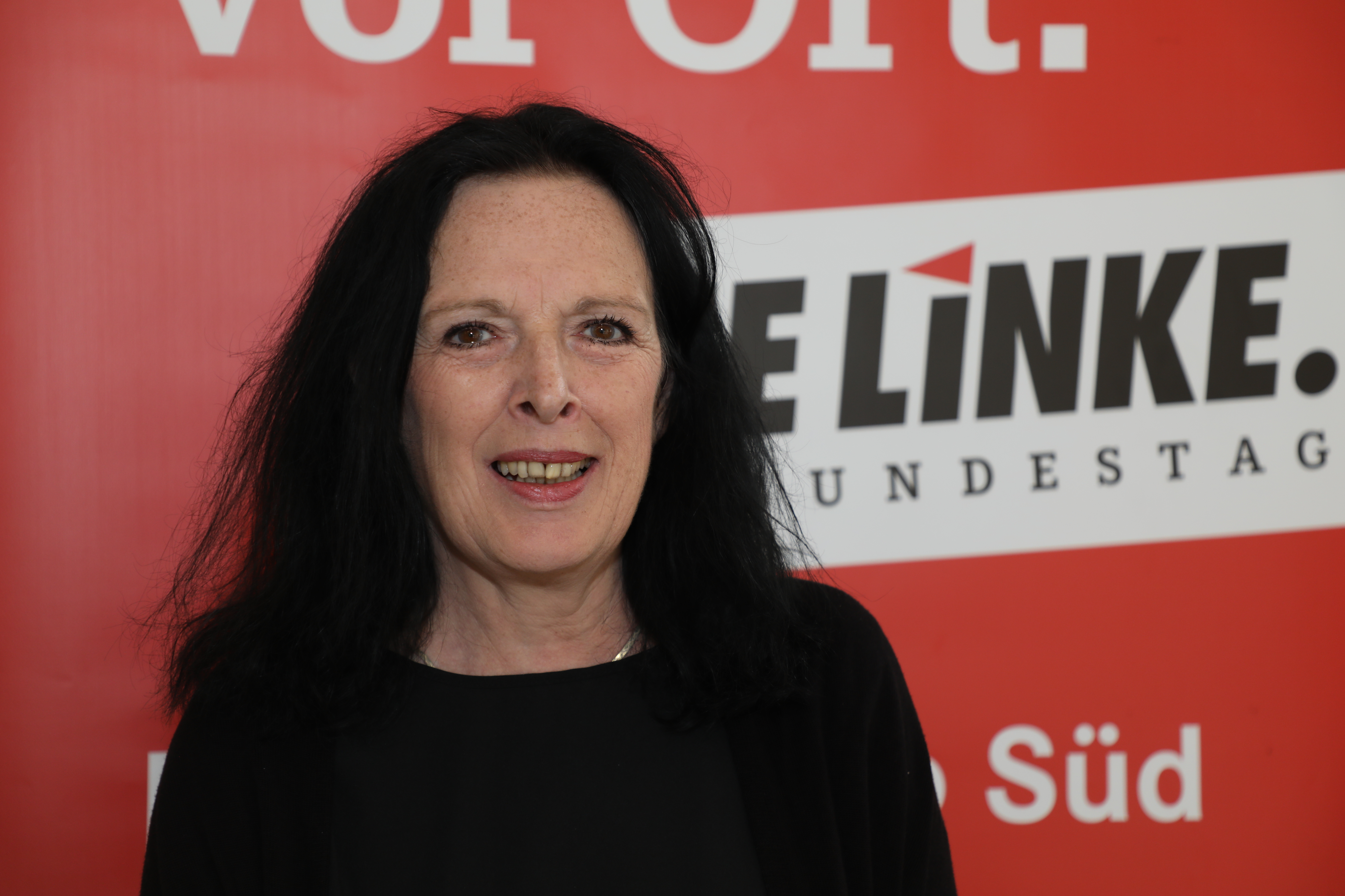 Eva Schreiber on the Landesparteitag Die LINKE. Bayern 2019